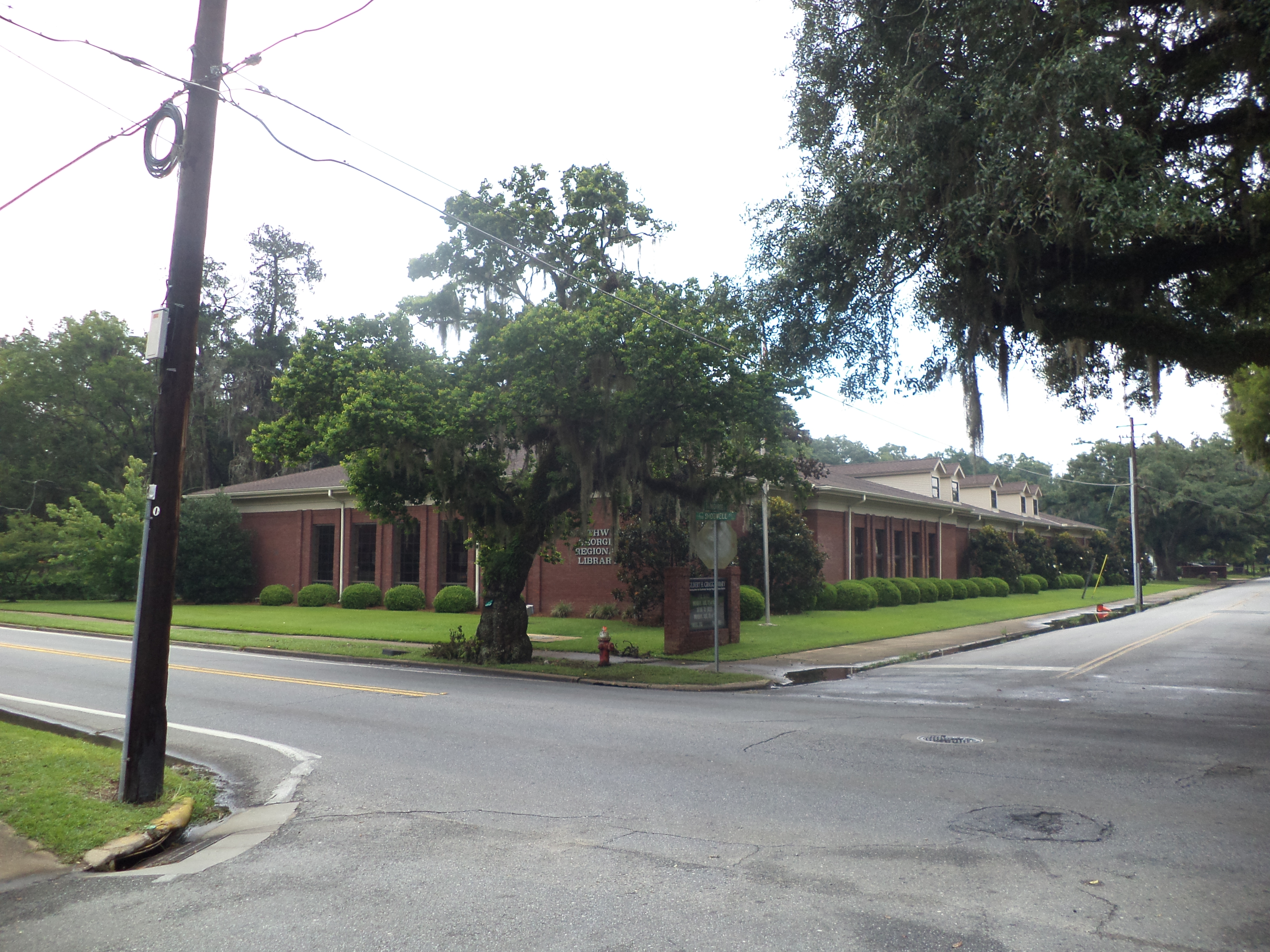 Gilbert H. Gragg Library, 301 S. Monroe Street, Bainbridge, Decatur County, Georgia